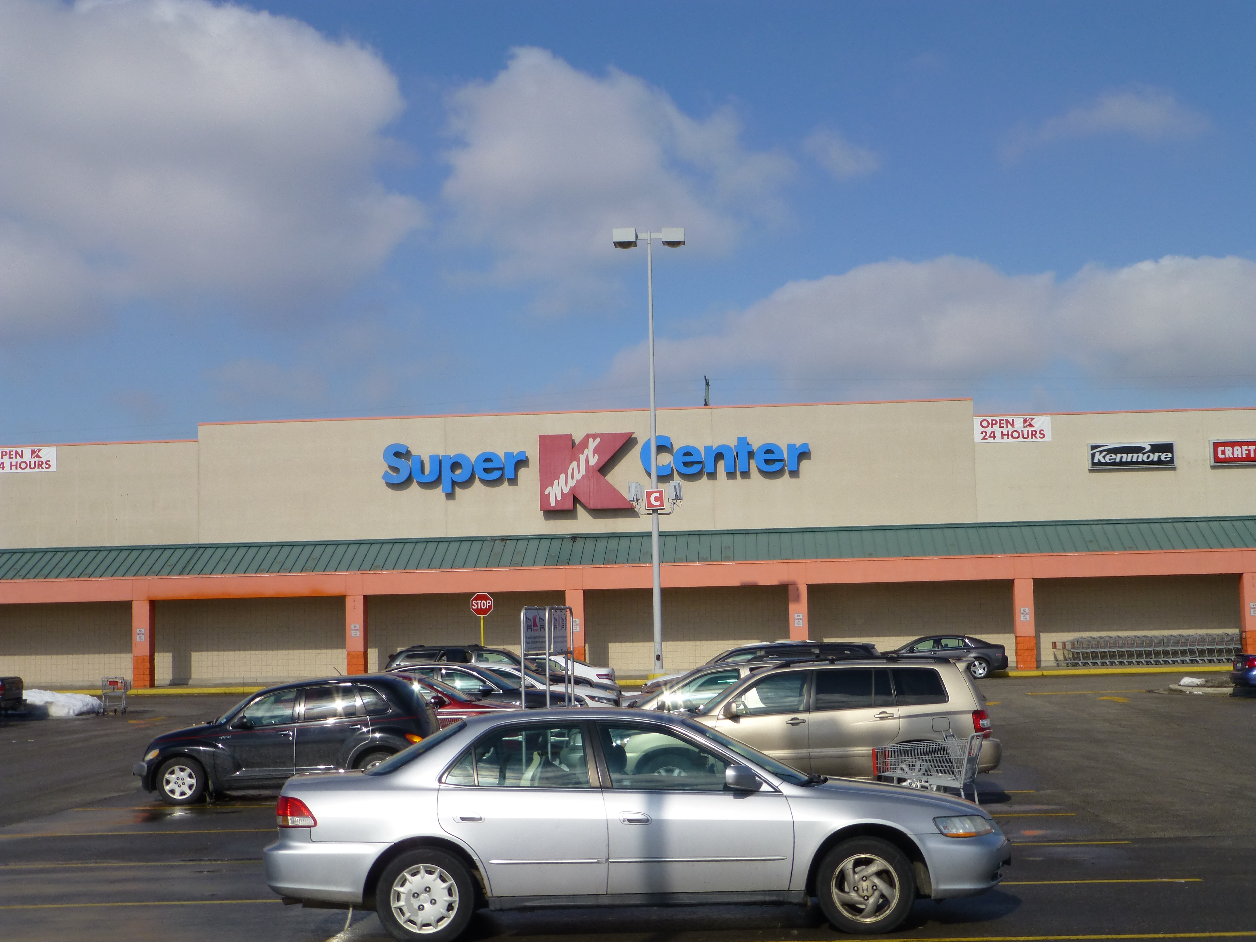 A typical Super Kmart Center store in Cleveland, Ohio.